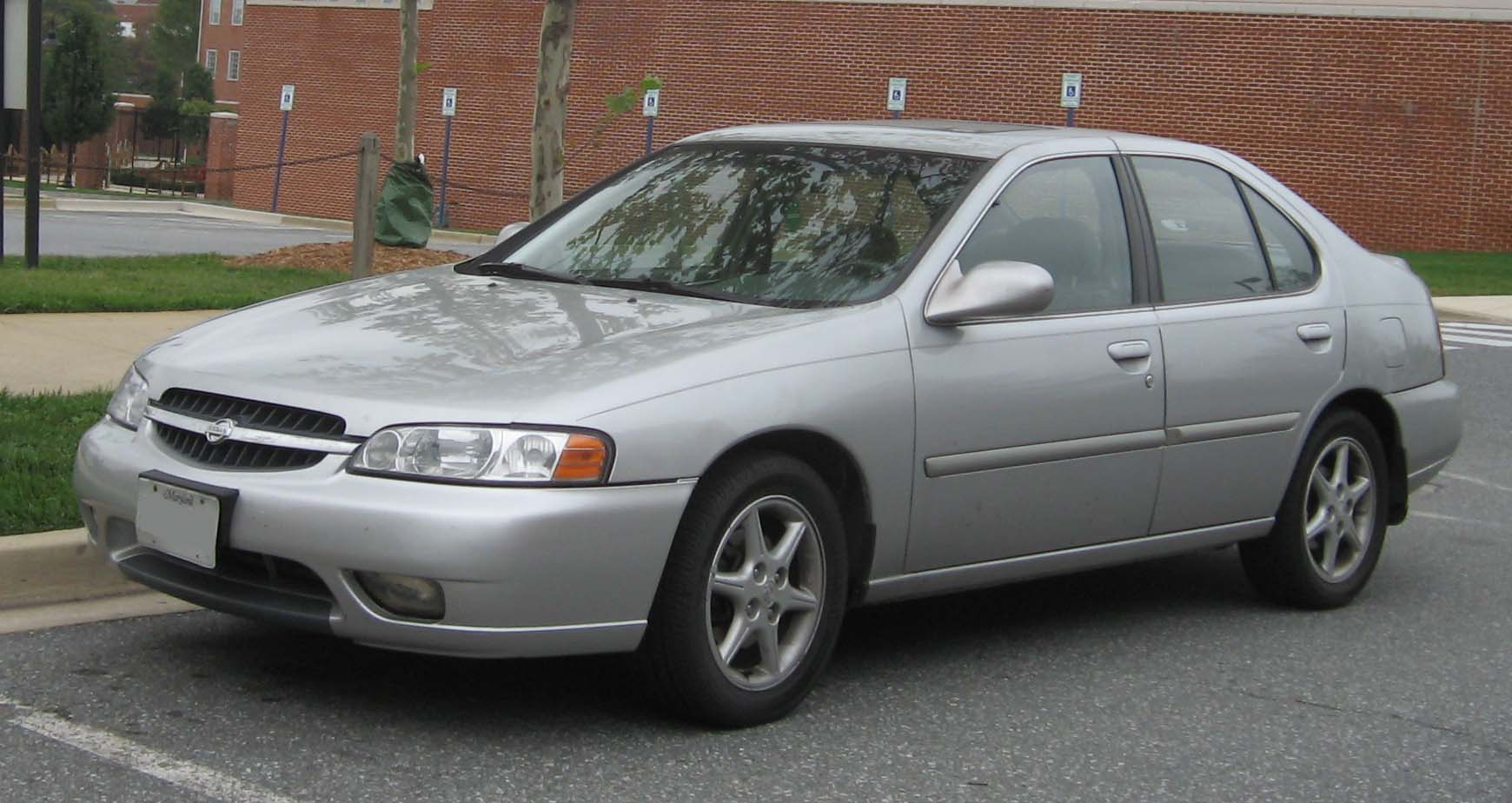 2000-2001 Nissan Altima photographed in College Park, Maryland, USA.